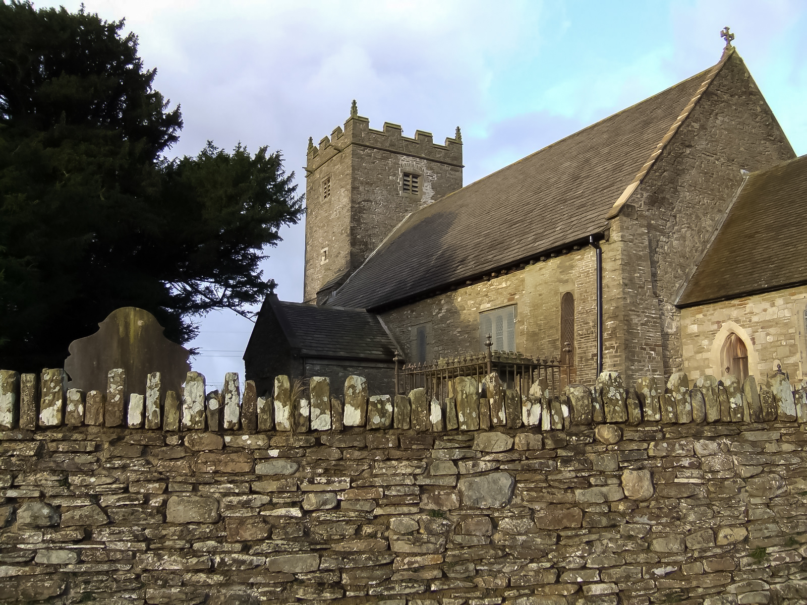 Eglwysilan Church, of Eglwysilan parish in south Wales